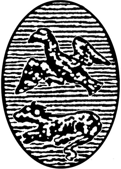 Coat of Arms of Belgoron governorate of Russian Empire (1727—1779). Coat of Arms approved in 1730.